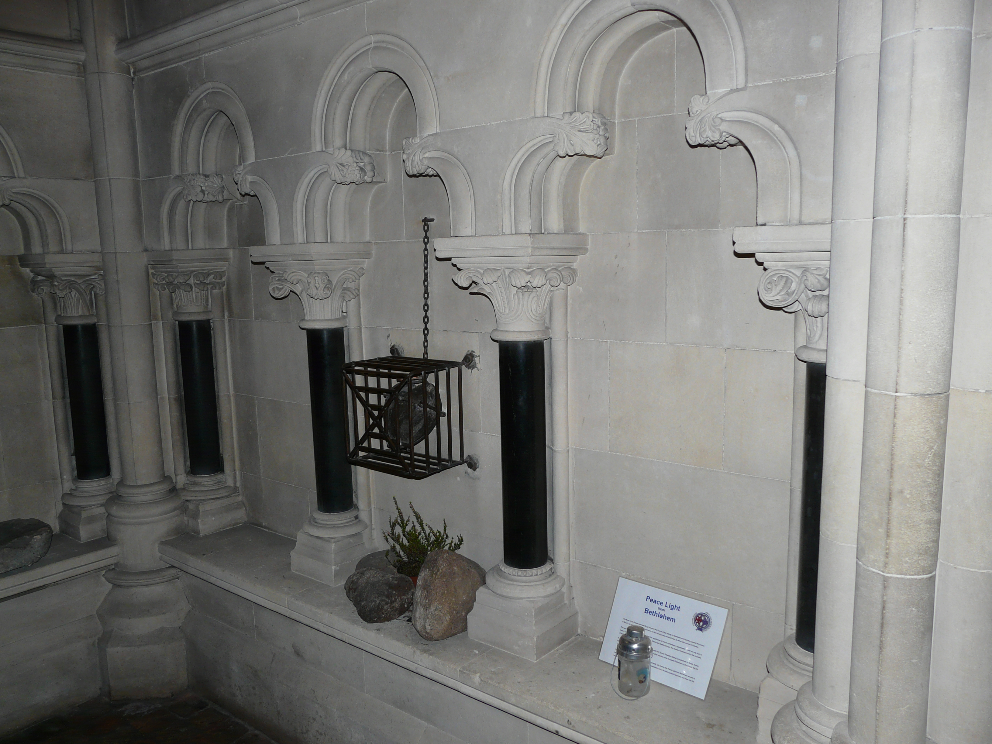 The preserved heart of Laurence O'Toole (Lorcán Ua Tuathail) in the Peace Chapel of St. Laud in Christ Church, Dublin. The heart was stolen from this location on 3 March 2012.